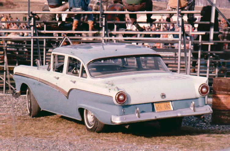 Taken in 1977 at the drag races in Reading PA. Scanning more of my dirty old slides from the seventies. Moved six times since then, so they have spent time in garages and basements.